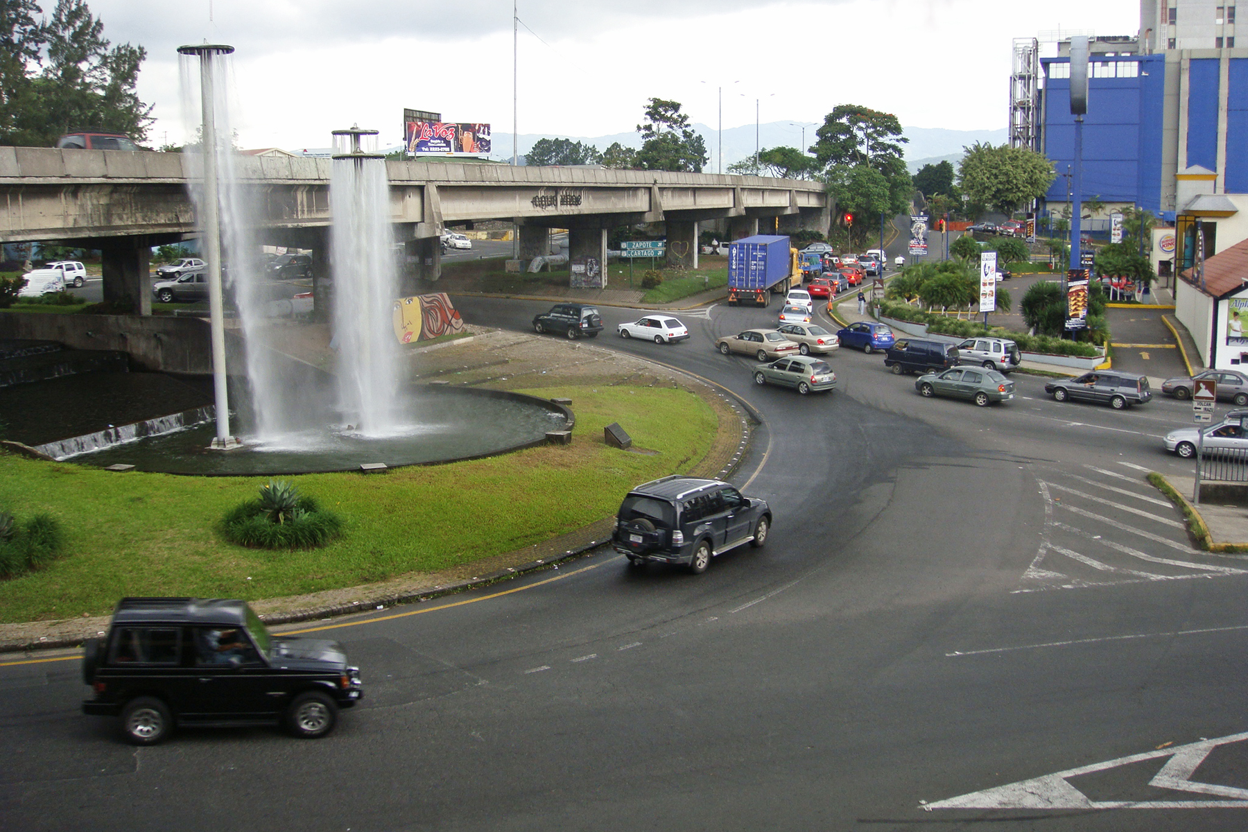 San Pedro Roundabout and "Fuente de la Hispanidad", San Jose, Costa Rica